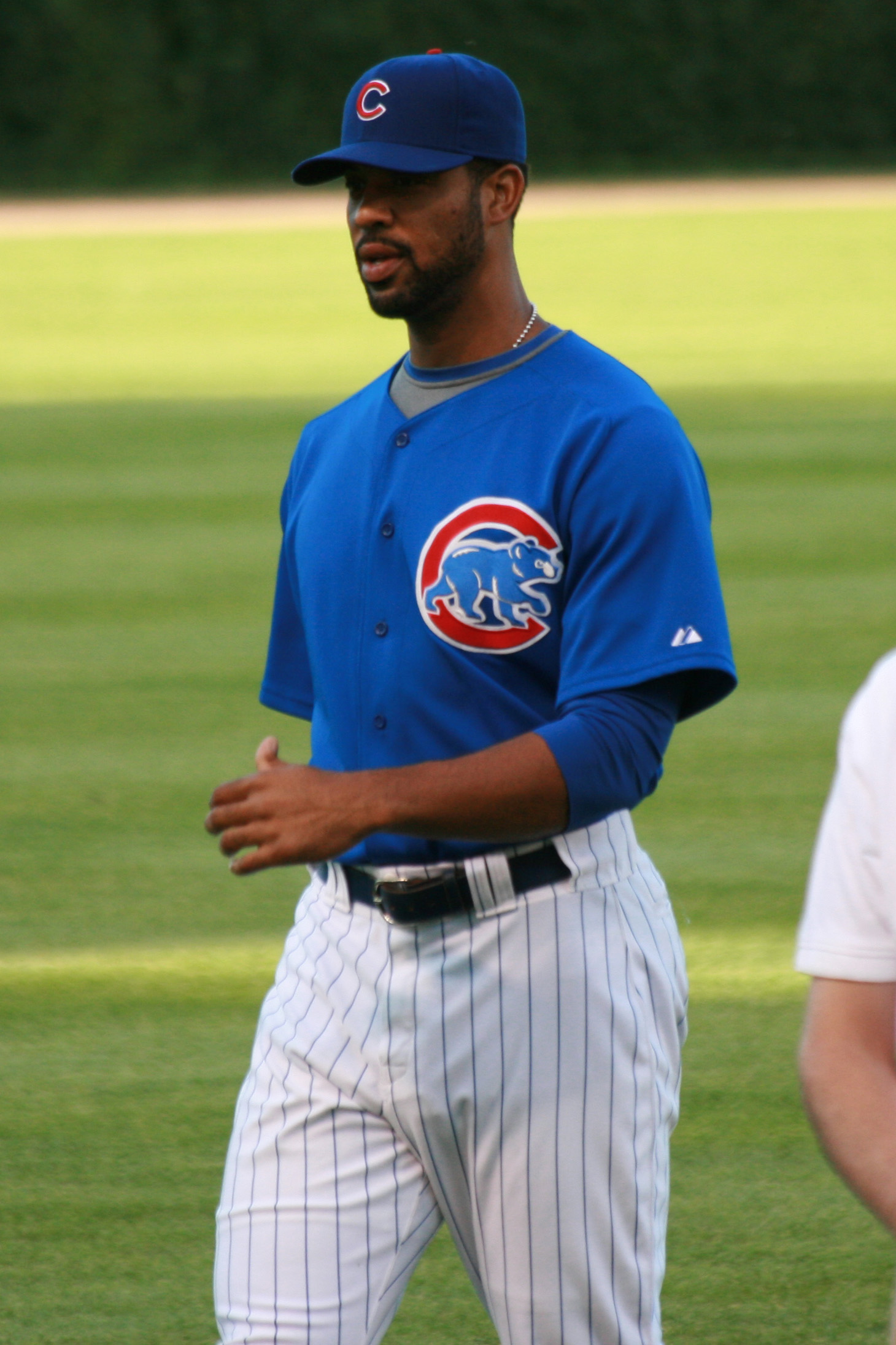 Derrek Lee of the Chicago Cubs warms up before a game (cropped).